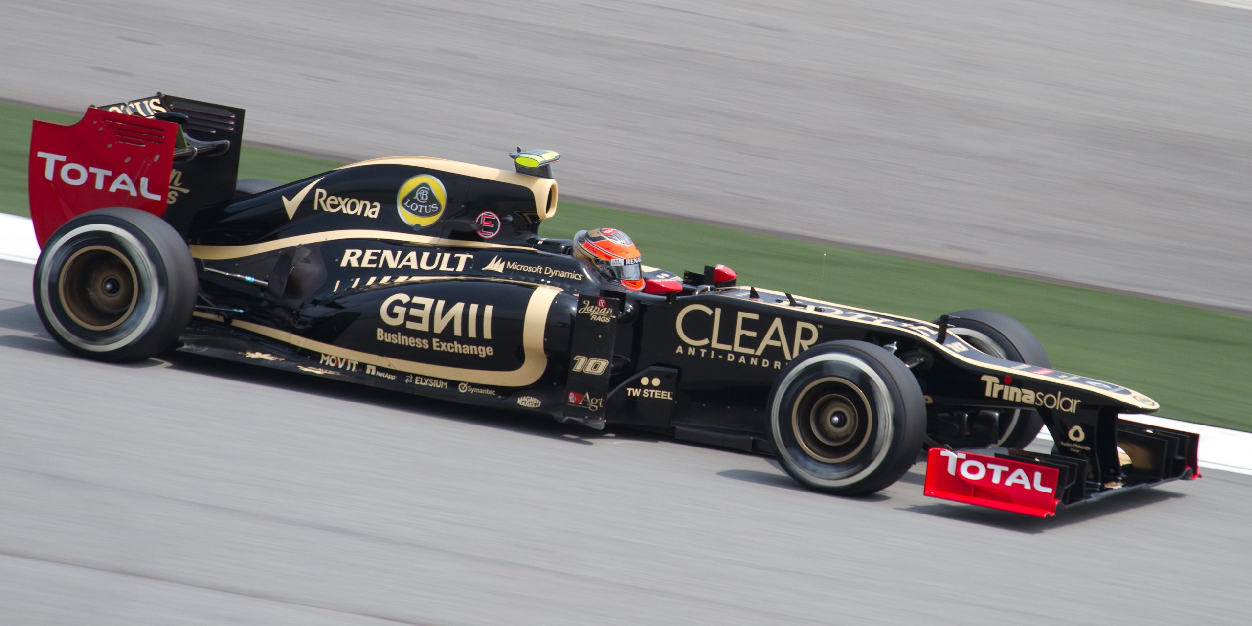 Formula One 2012 Rd.2 Malaysian GP: Romain Grosjean (Lotus) during the second practice session on Friday.